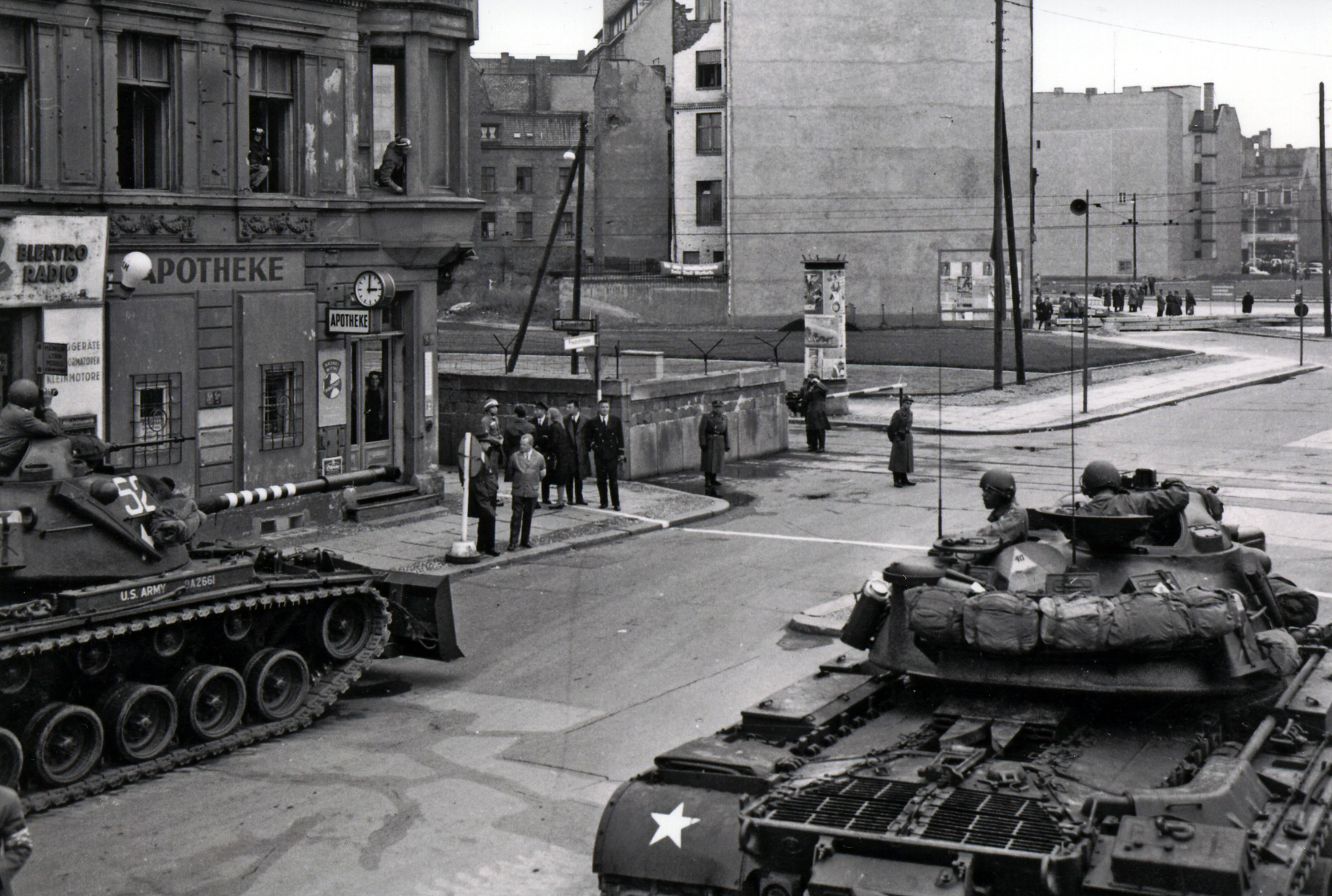 Soldiers from the U.S. Army Berlin Command face off against police from the former East Germany during one of several standoffs at Checkpoint Charlie in 1961. On several occasions that year, a U.S. quick reaction force of tanks and infantry Soldiers stood watch as armed military policemen escorted U.S. personnel across the border into East Berlin.